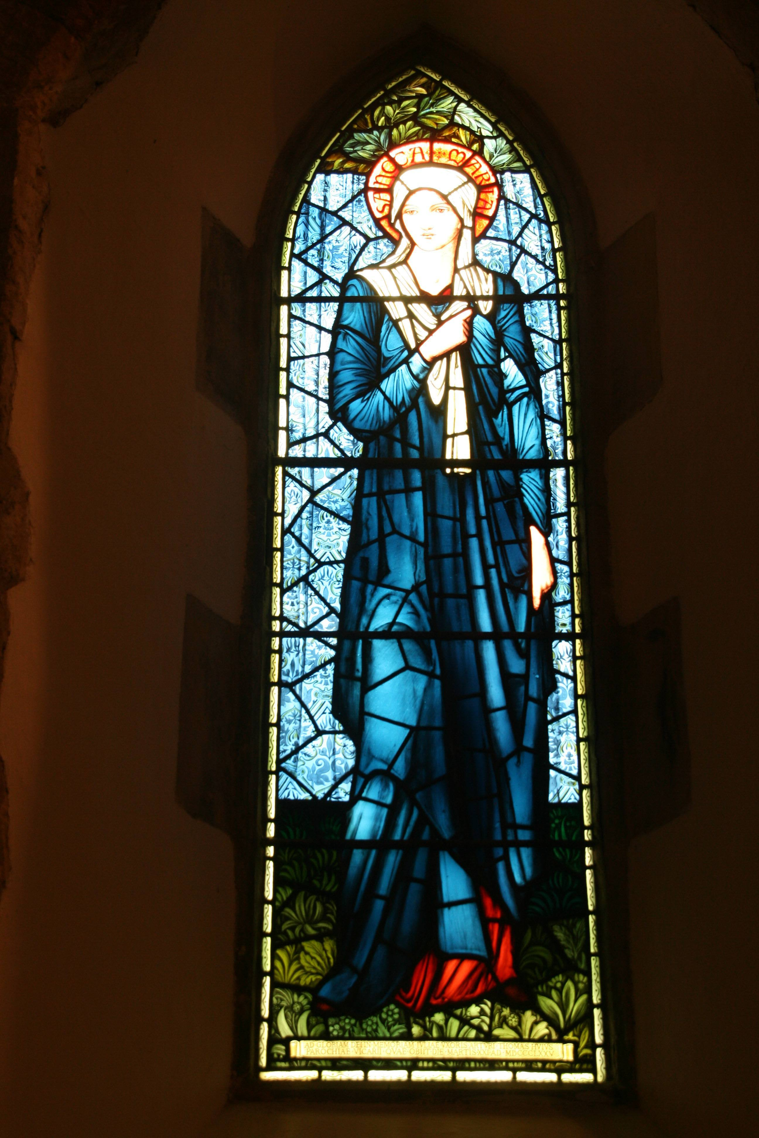 Stained glass window by Edward Burne-Jones in Rottingdean Church, Rottingdean, Sussex, UK.